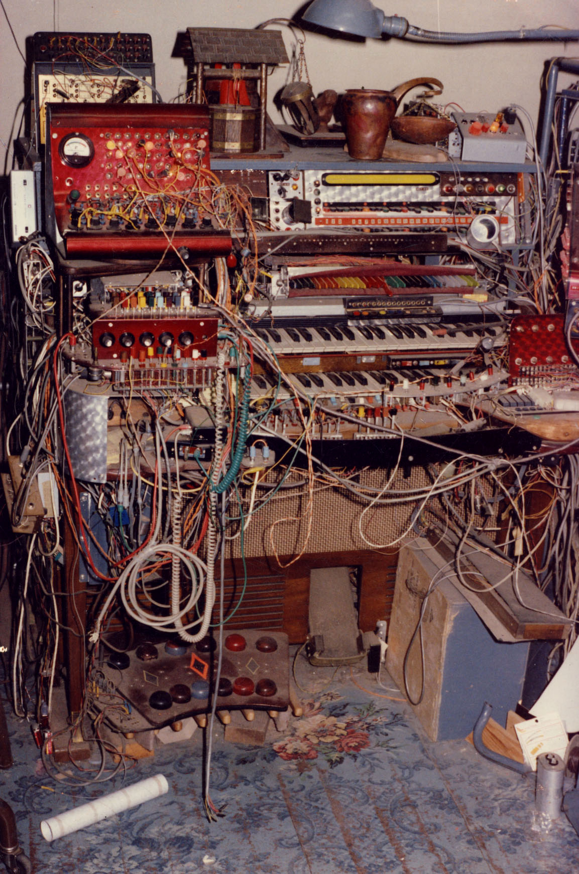 The Jerry Andrus Organ